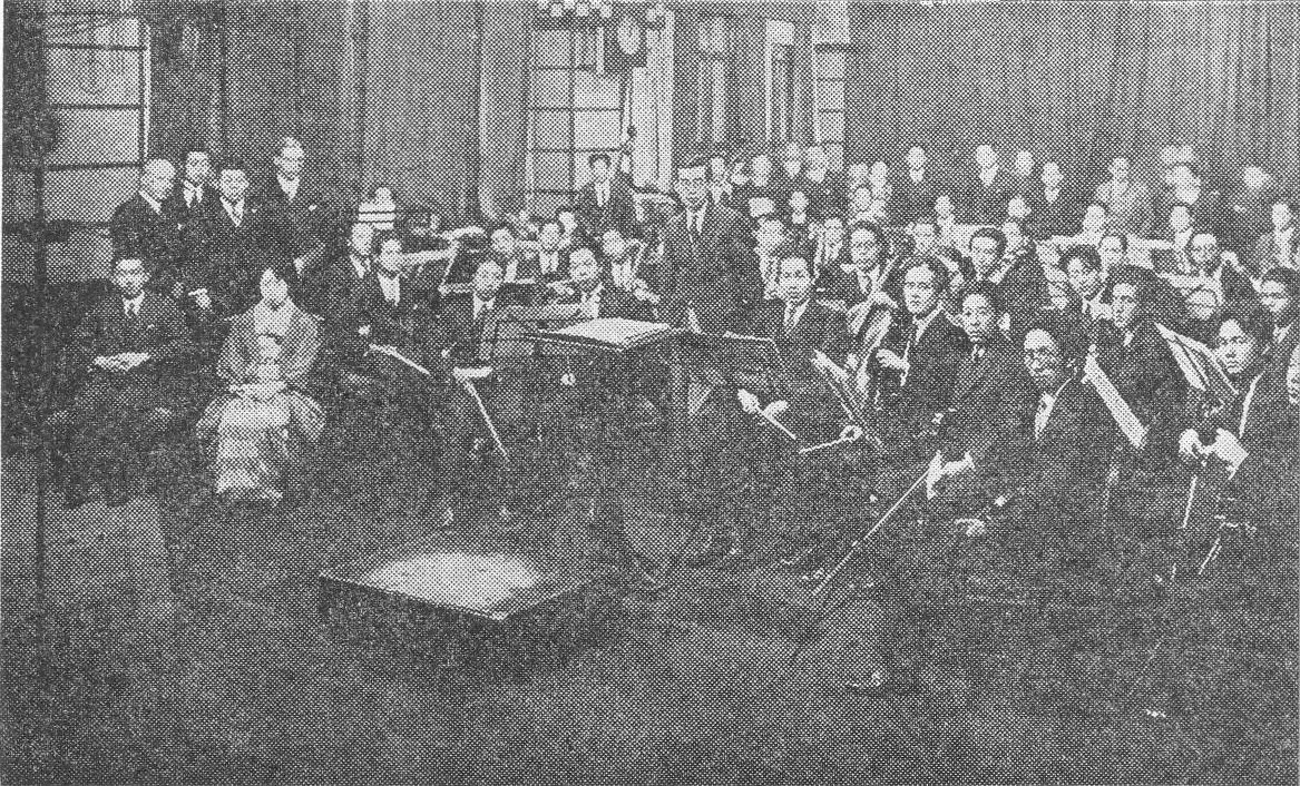 First recording from Mahler's Symphony No. 4. New Symphony Orchestra of Tokyo conducted by Viscount Hidemaro Konoye, Japanese Parlophone. It's seated in the left Prince Kuni Asaakira and Princess Tomoko.